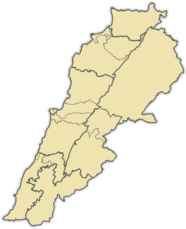 Election districts of Lebanon, as per 2017 vote law. Based on File:Bint Jbeil electoral district (2009).png